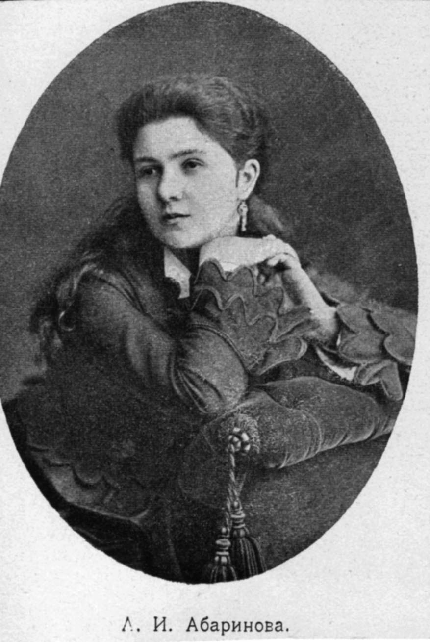 Photo of Russian opera singer Antonina Abarinova (1842-1901)